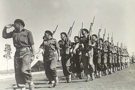 AWM Caption: MAPEE AREA, ATHERTON TABLELAND, QUEENSLAND. 1944-09-11. B TROOP, 2/6TH COMMANDO SQUADRON, SALUTE DURING THE MARCH PAST. THE SALUTE WAS TAKEN BY VX12014 MAJOR-GENERAL A.J. MILFORD, DSO, GOC 7TH DIVISION. IDENTIFIED PERSONNEL ARE:- WX12059 LIEUTENANT G.A. FIELDING (1); NX60375 LIEUTENANT T.R. FINN (2); WX19143 CORPORAL F.T. MCDONNELL (3); WX18176 TROOPER J.W. BOYCE (4); NX152731 SERGEANT J. MCA. BRAMMER, DCM (5). .